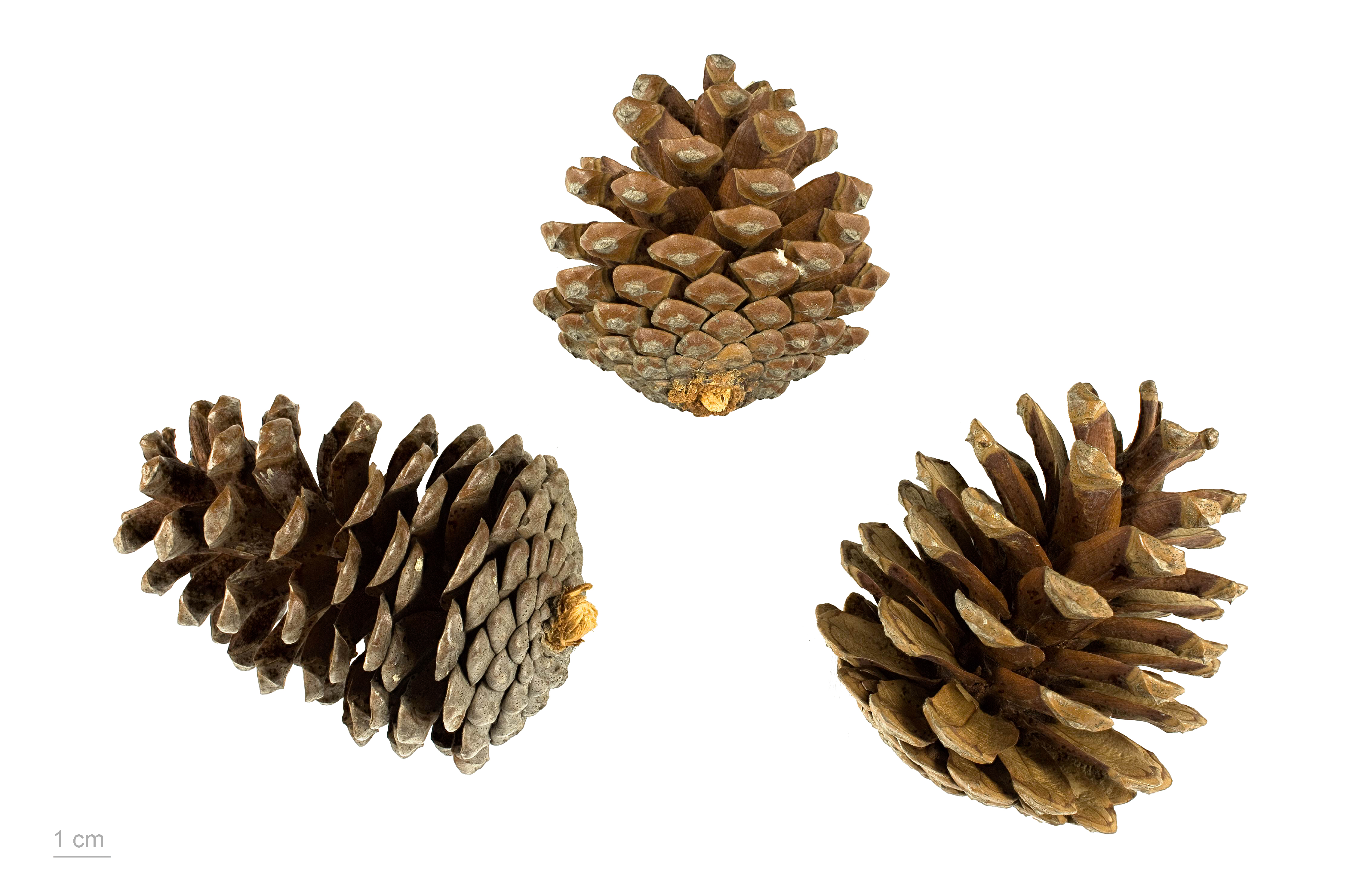 Aleppo Pine, cones and seeds